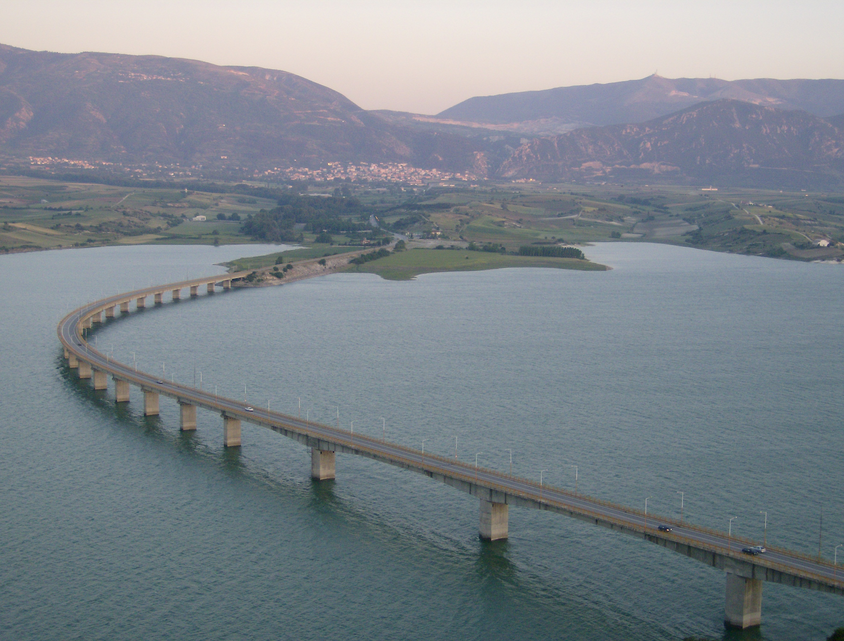 Servia Neraida-Brücke über den Fluss Aliakmonas in Griechenland User:Makedonas is the creator of this work.